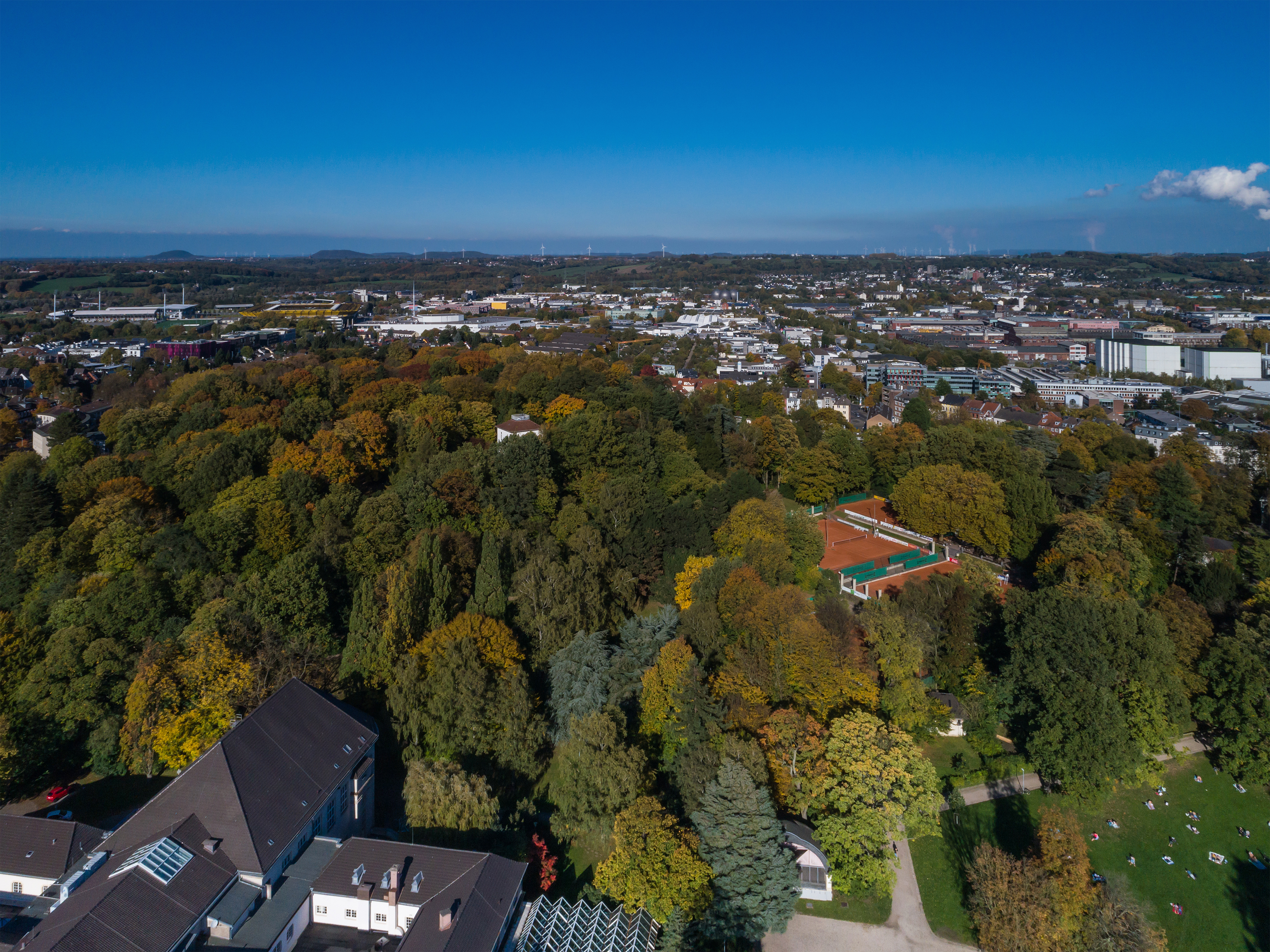 Aerial photo of Aachen (Germany)